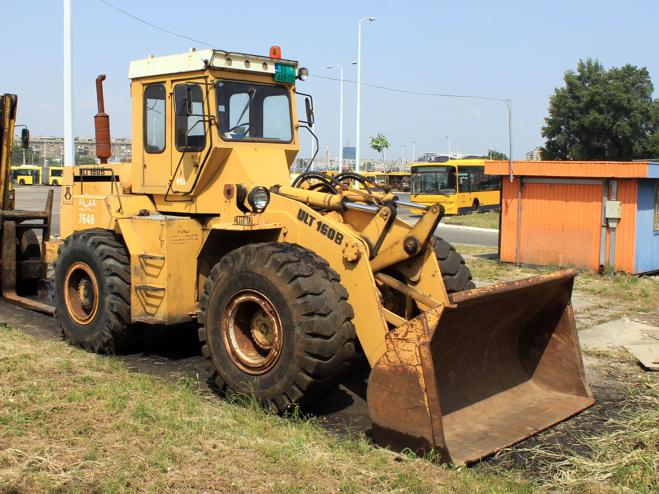 IMK ULT-160B front end loader of GSP Beograd public transport company at Novi Beograd bus depot.